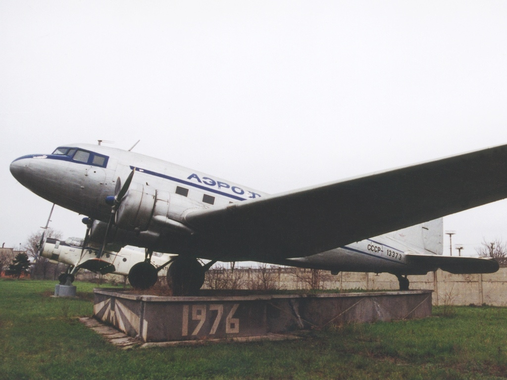 In museum of local Repair Plant. Also An-2, Mi-1 and Mi-2.